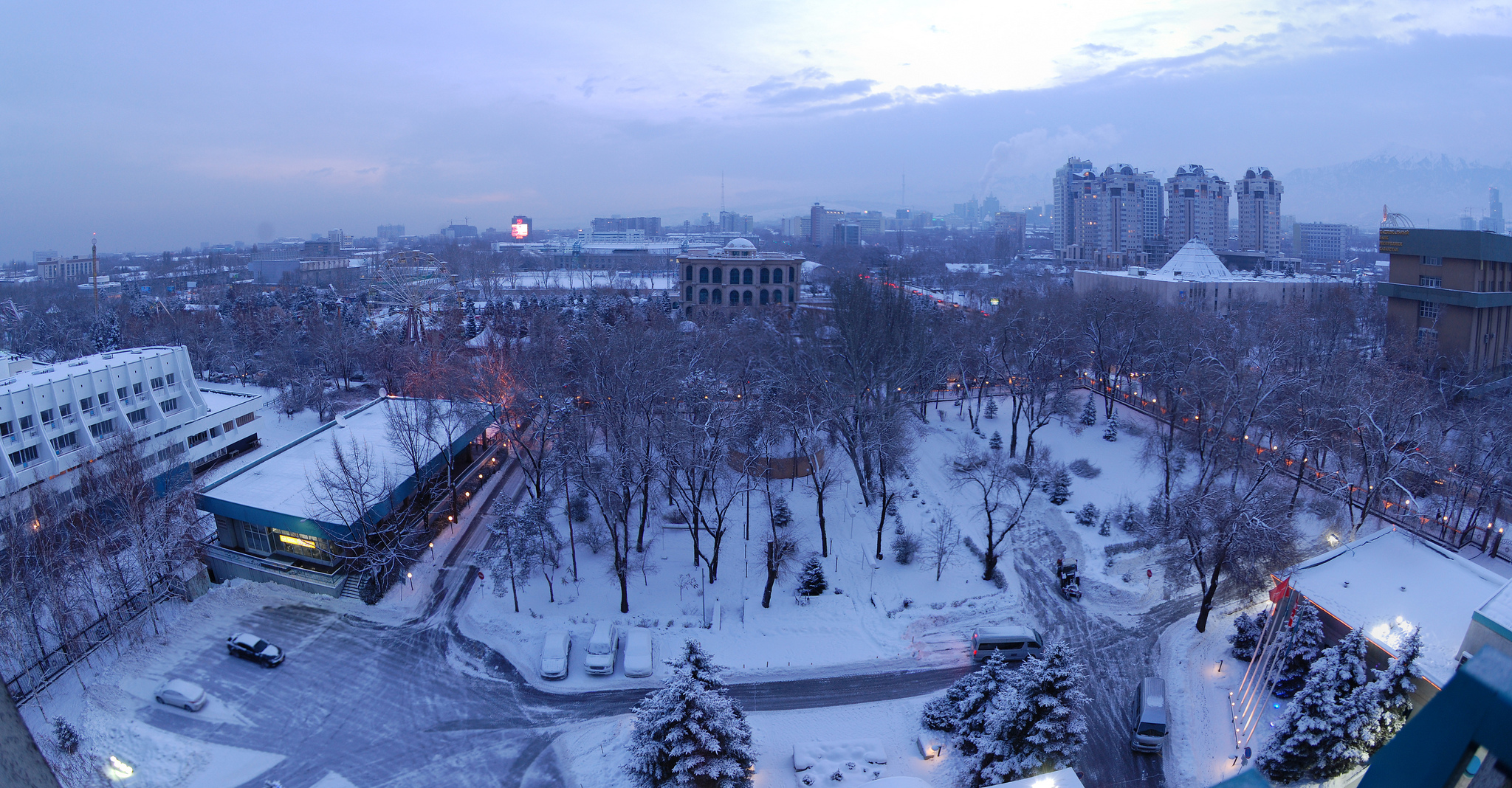 Almaty city